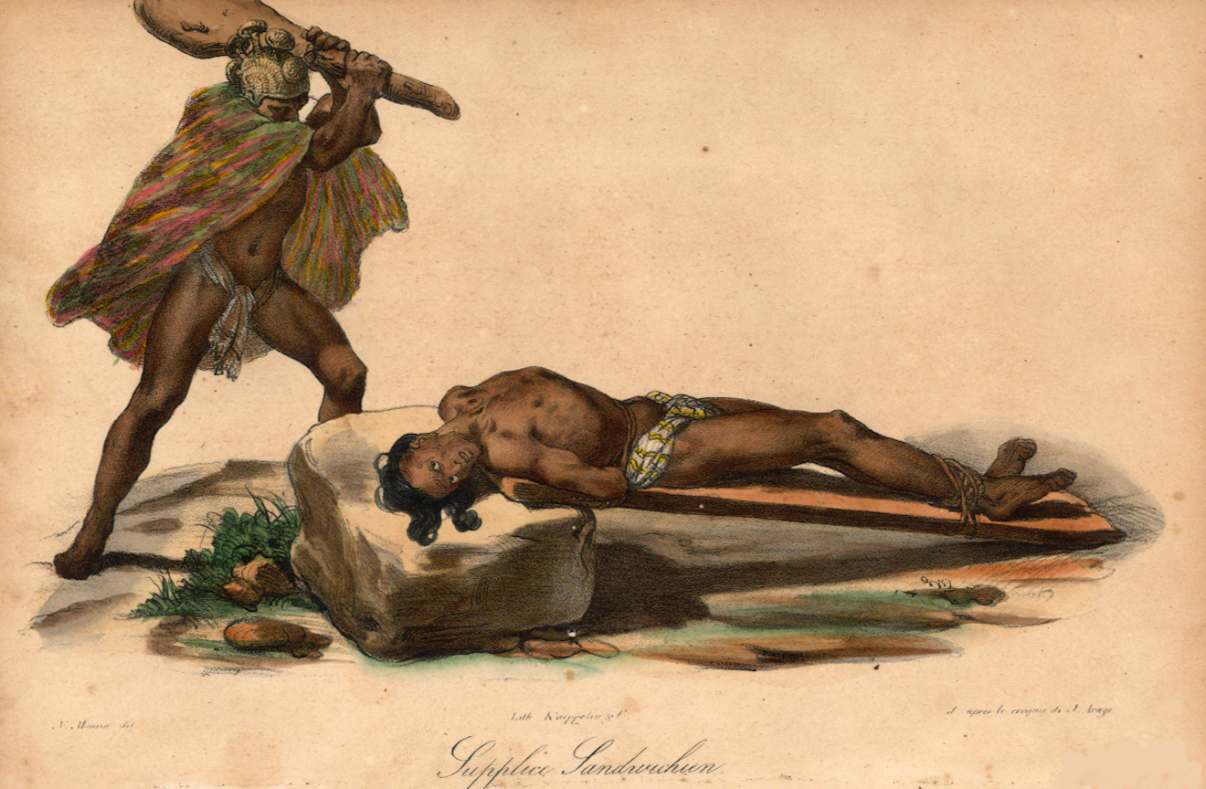 Supplice Sandwichien;' drawn by Jacques Arago and by Maurin. Curious scene showing a Hawaiian sacrifice, from Jacques Arago's rare account of Freycinet's travels around the world from 1817 to 1820. First published in 1822, Arago's account met with much success. This plate is newly drawn by N. Maurin after the orginal sketchbook by Jacques Arago, who had become blind.